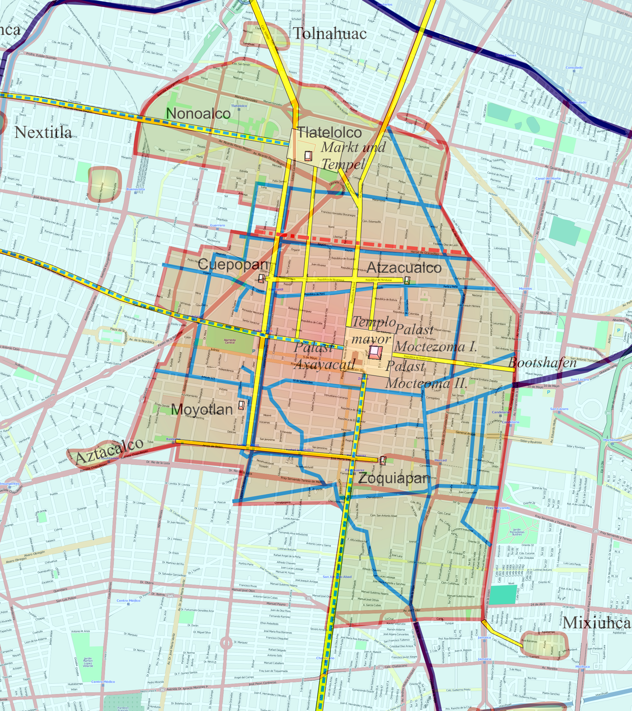 Tenochtitlan over modern street map